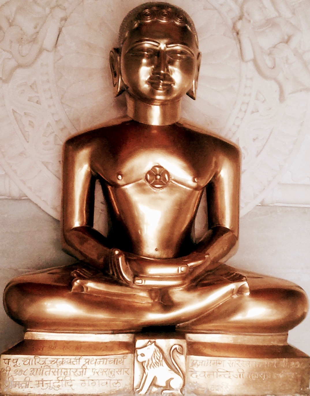 Jain theology, 6th or 5th century BCE religious sage and leader. A derivative work on the wikimedia file Mahaveer Bhagwan.jpg.